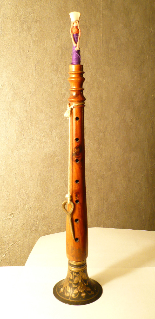 A shehnai (quadruple reed woodwind instrument of North India). Photo taken in Kent, Ohio with a Panasonic Lumix digital camera (model DMC-LS75). Shehnai purchased from ISKCON members in Tallahassee, Florida.